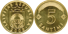 5 Santimi Latvia Obverse: The small coat of arms of the Republic of Latvia, encircled by the inscription LATVIJAS REPUBLIKA • 1992 or LATVIJAS REPUBLIKA • 2006 (Republic of Latvia 1992 or Republic of Latvia 2006), is placed in the centre. Reverse: The numeral 5 is centered on the coin. The inscription SANTIMI, arranged in a semicircle, is beneath the numeral 5. Above the numeral, five arcs join two diamond-shaped suns which are located on either side of the numeral 5. Edge: plain.